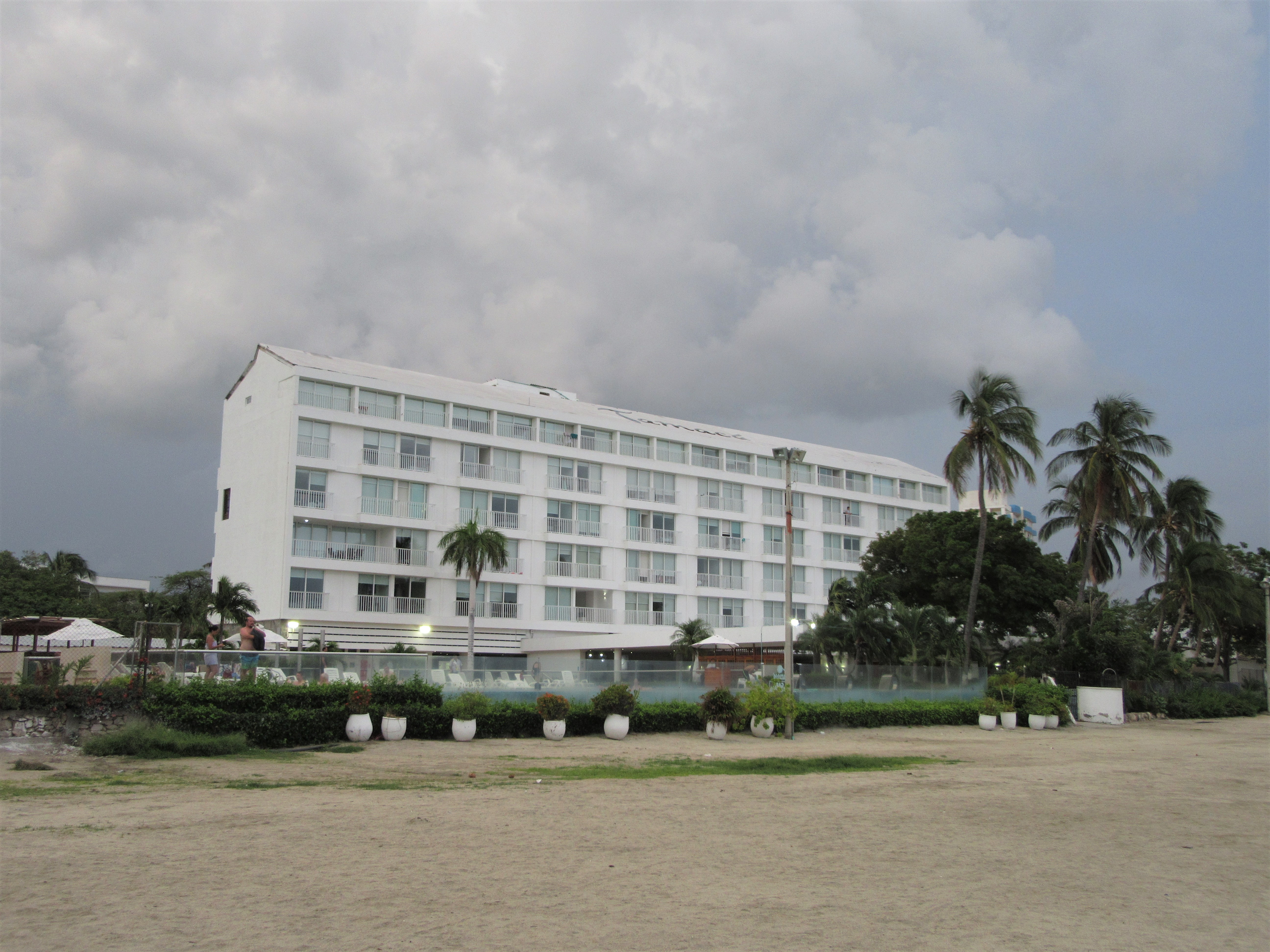 El Rodadero